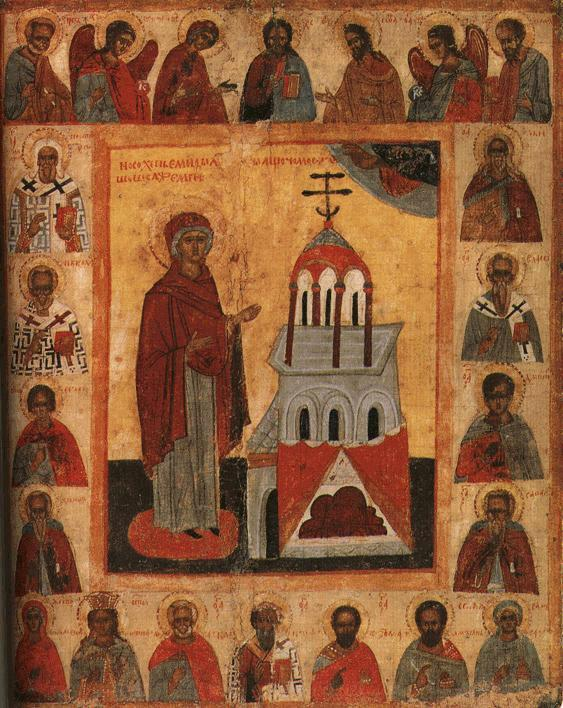 Orthodox feast ikon of the Deposition of the Robe of the Mother of God